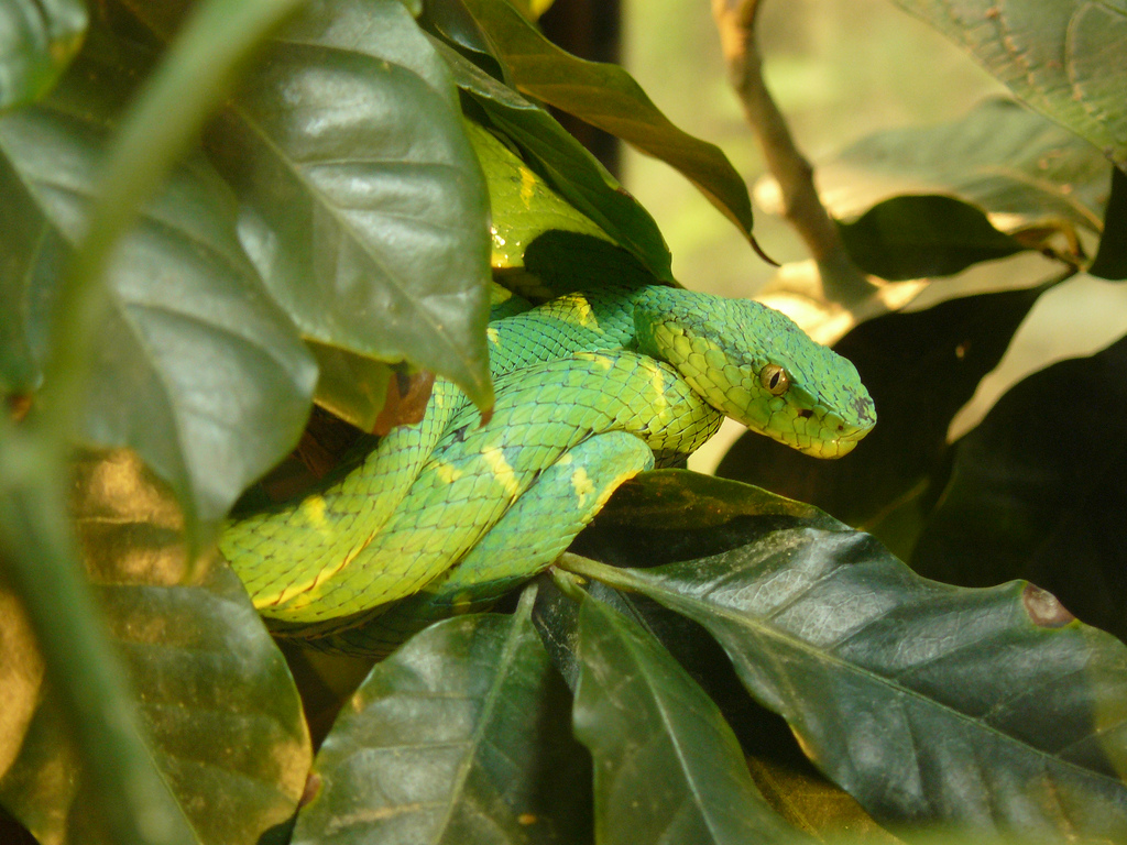 Side-striped palm-pitviper (Bothriechis lateralis). Photo taken in the "Serpentario de Monteverde", Costa Rica.